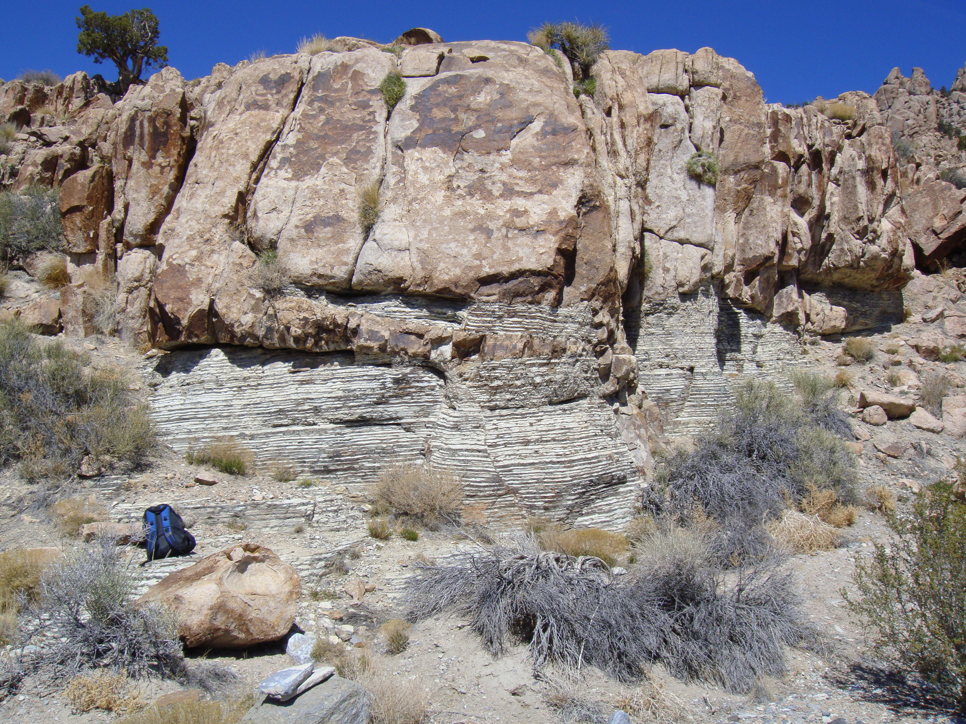 An intrusion (Notch Peak monzonite) inter-fingers (partly as a dike) with highly-metamorphosed host rock (Cambrian carbonate rocks). From near Notch Peak, House Range, Utah. According to Utah Geological Survey, this is the Notch Peak Sill, a sill of quartz monzonite which, about 17 million years ago, intruded into the layers of white marble and grey argillite of the Marjum Formation. Reference: .